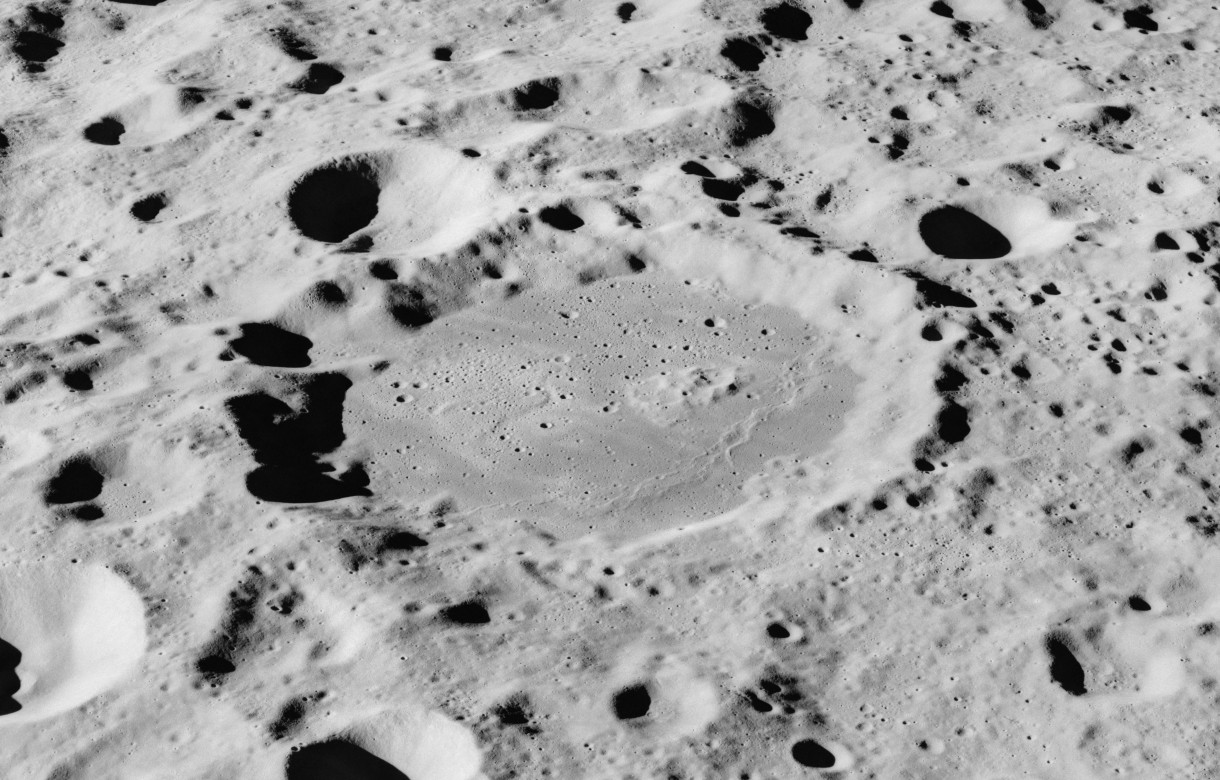 Oblique view of Kohlschütter, on the far side of the moon, facing north. Sun angle 15 deg, camera altitude 116 km. Figure 5-2 of The Geologic History of the Moon by Don E. Wilhelms et al. (1987) shows this crater and states "Isolated mare patch in crater Kohlschütter."